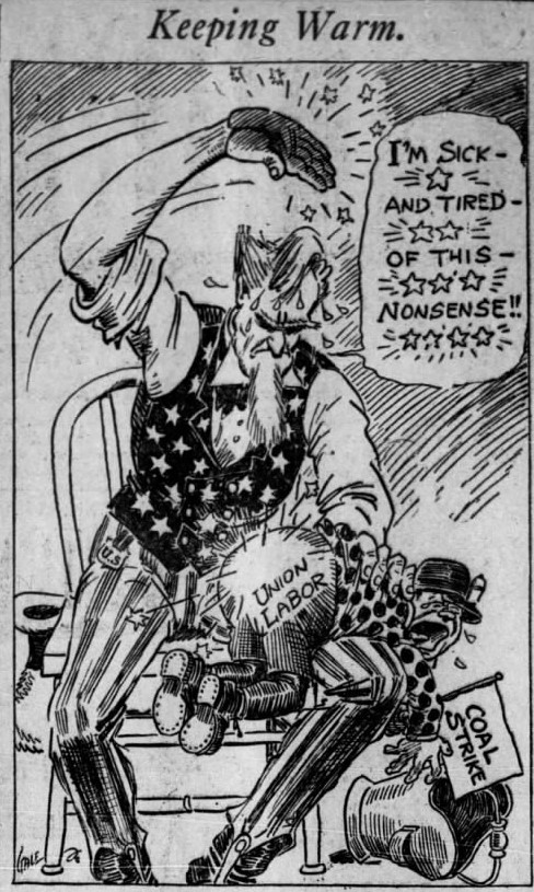 political cartoon showing "Uncle Sam" spanking Unions due to the United Mine Workers coal strike of 1919